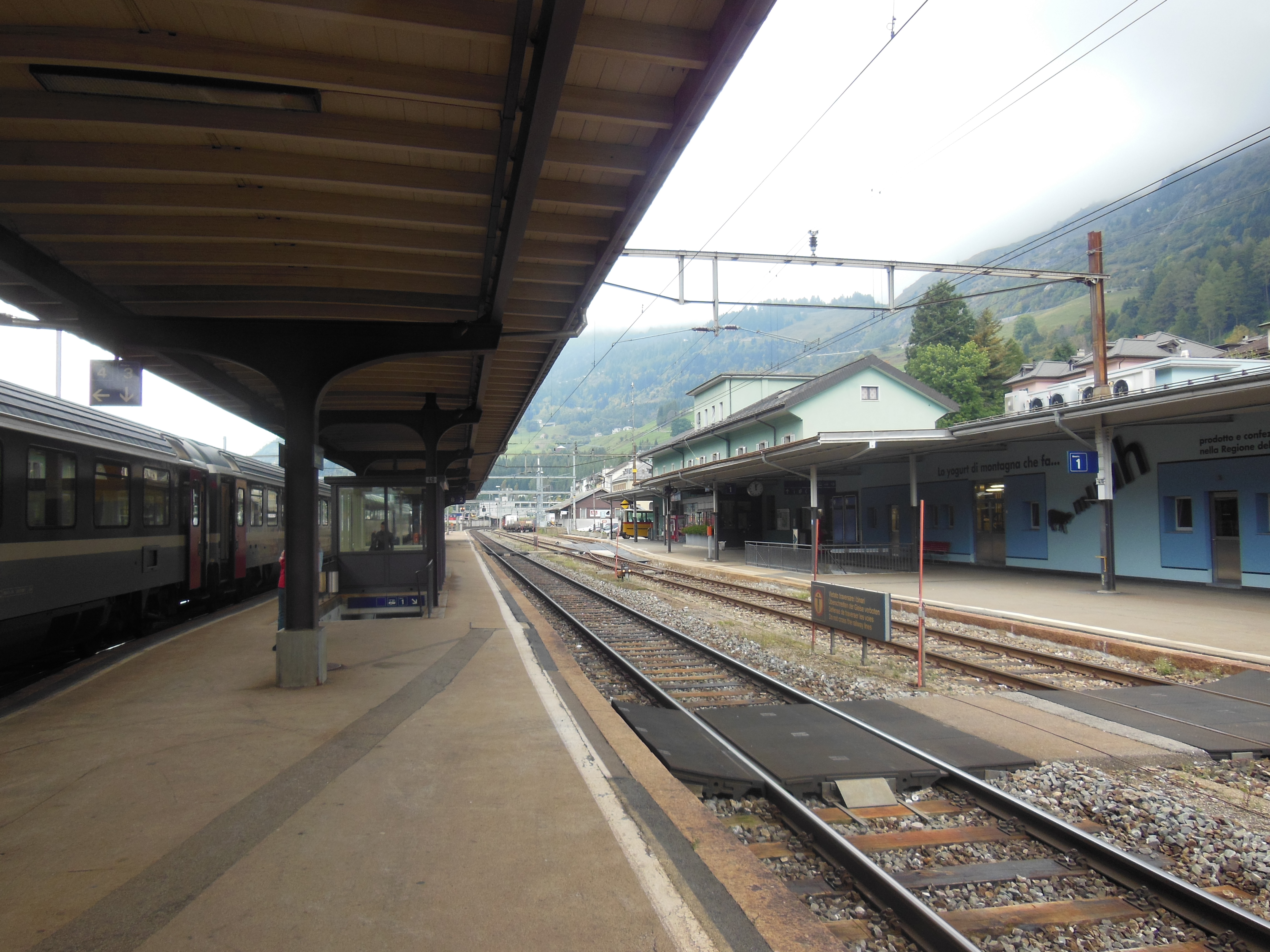 Airolo railway station on the Gotthard railway in the Swiss canton of Ticino. For more information, see the wikipedia article Airolo railway station.